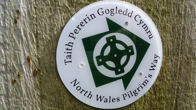 Waymarker disc for the Taith Pererin Gogledd Cymru or North Wales Pilgrim's Path on Lleyn